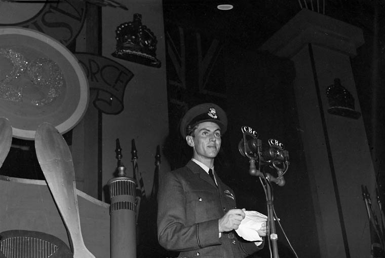 "Buzz" Beurling, Canadian WWII ace, giving a speech.